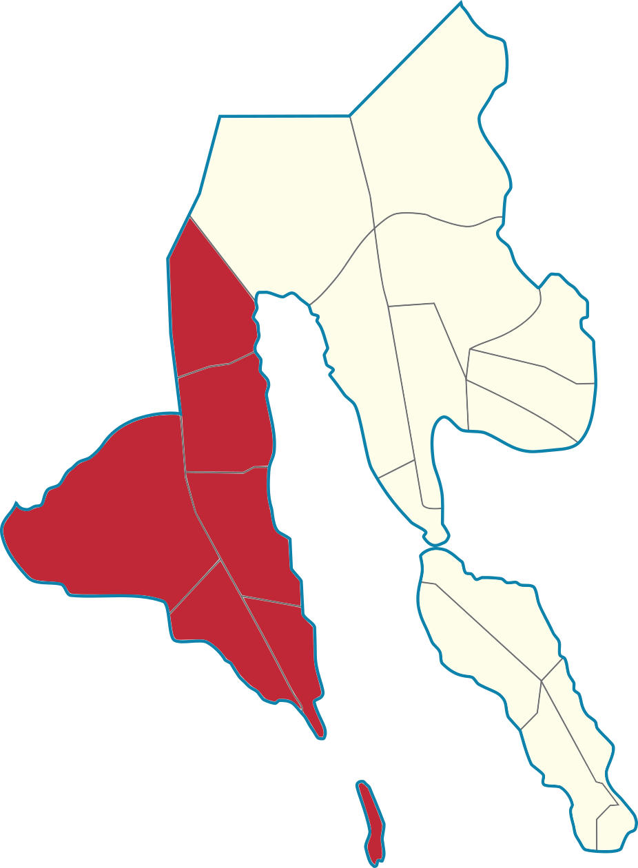 First Legislative District of Southern Leyte, for representation in the Sangguniang Panlalawigan. (Southern Leyte only has one Congressional District.)